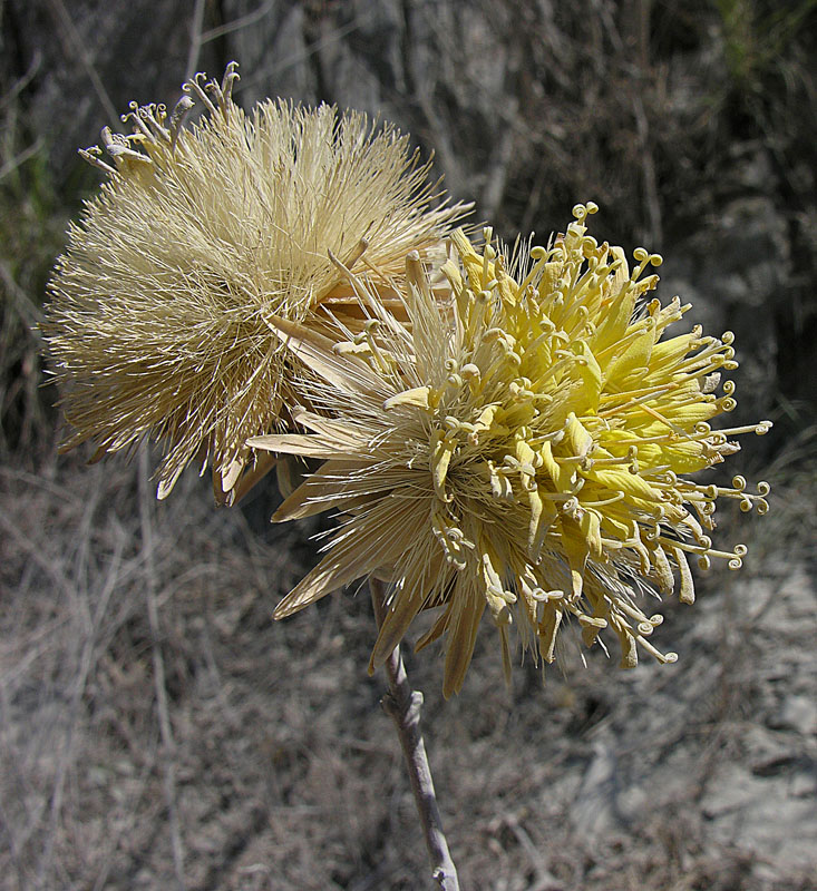 Dinoseris salicifolia, Salta, Argentina